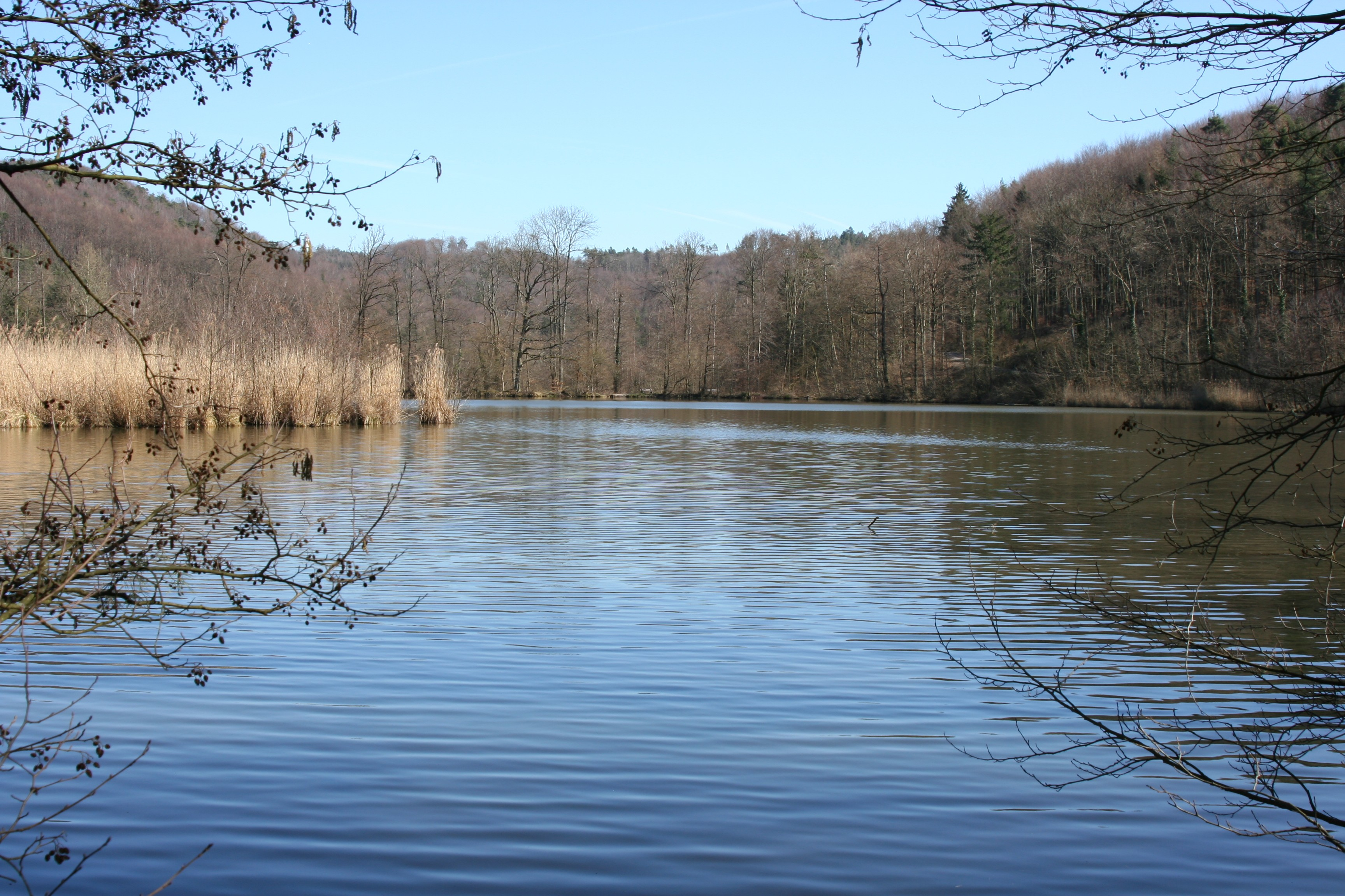 The Bleichsee (lake formerly used to bleach cloth) in Löwenstein from the South-West